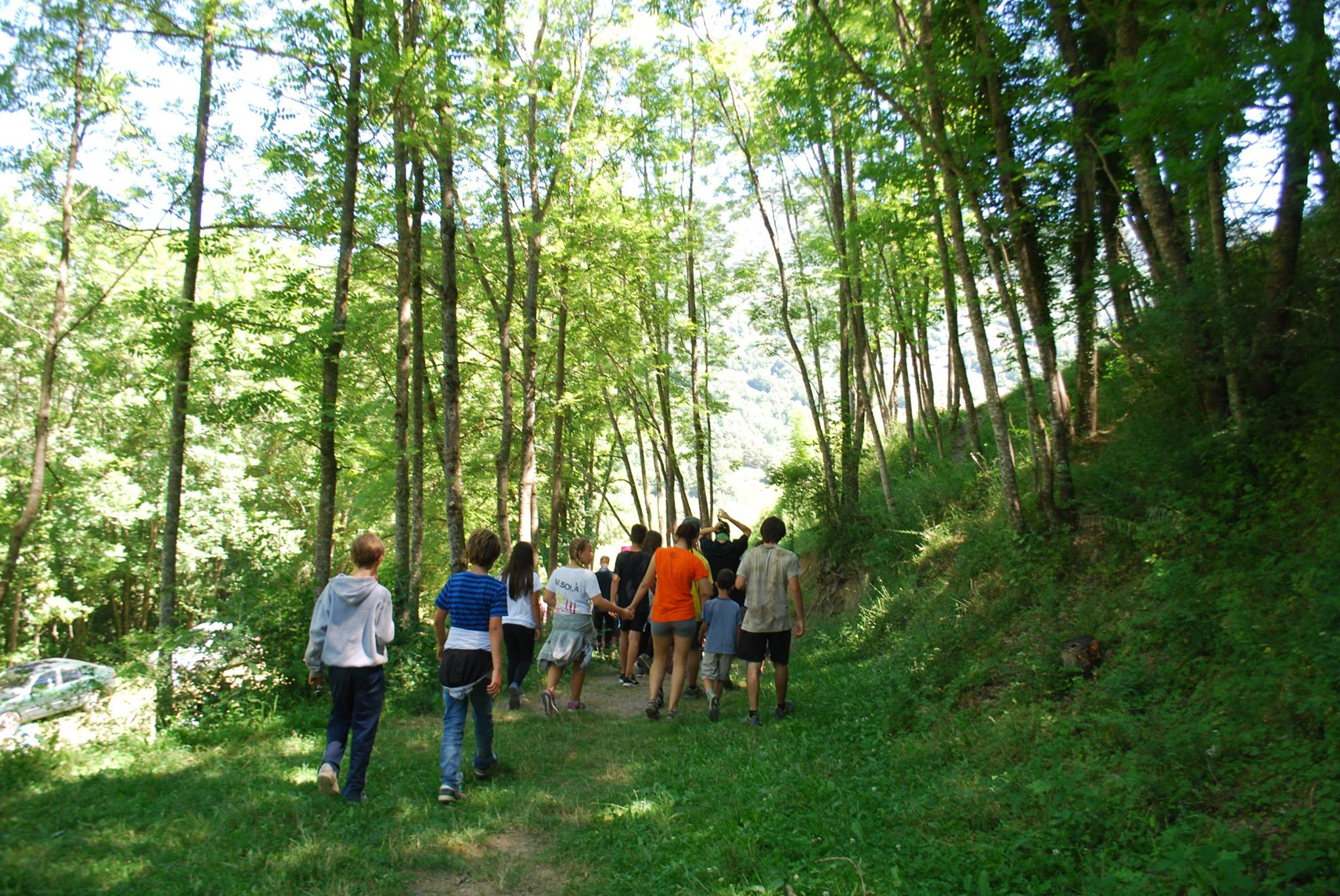 Esplai excursion